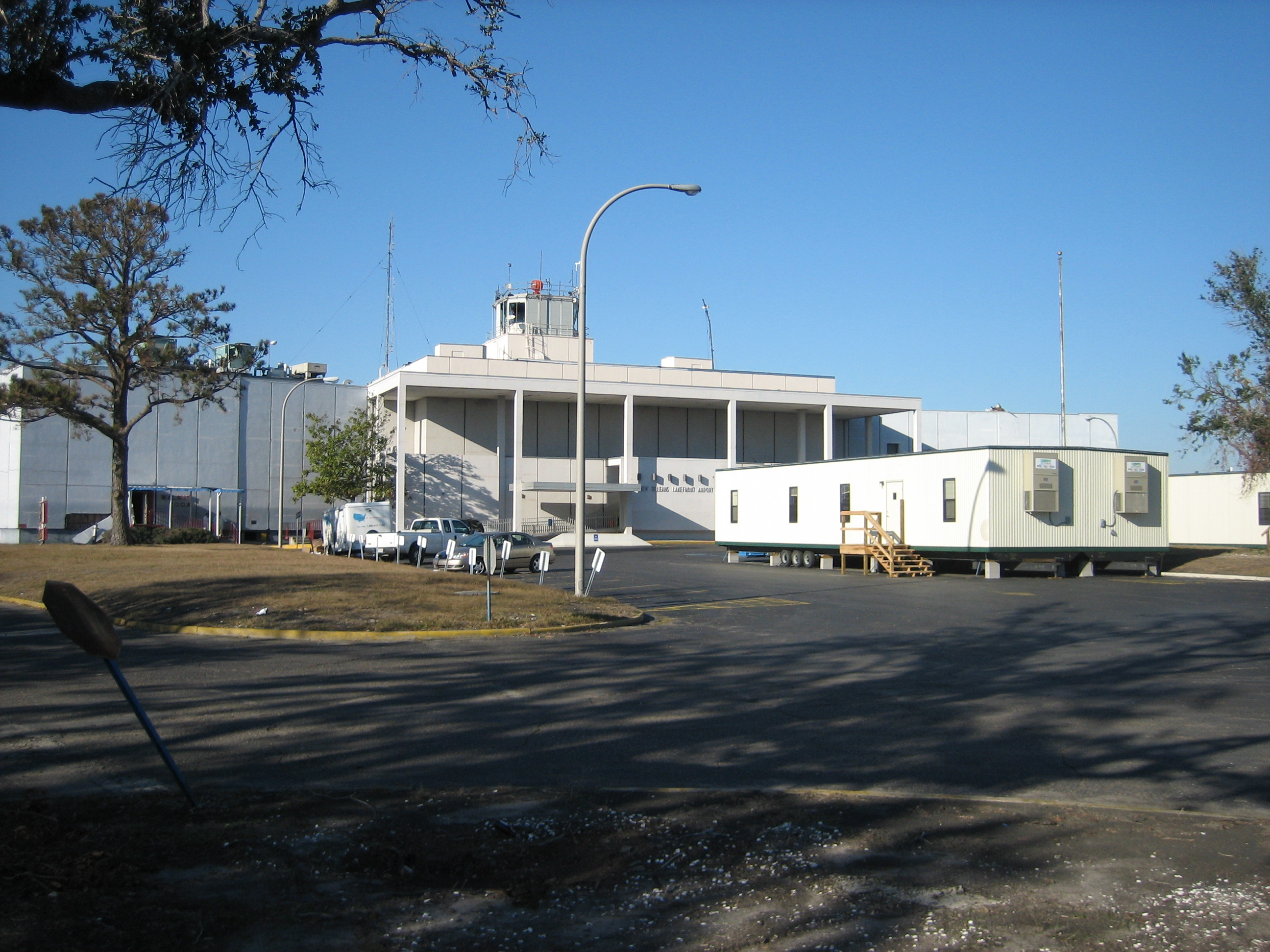 New Orleans Lakefront Airport, main terminal building. Note trailers out front serving as temporary office space as the airport was damaged by storm surge in Hurricane Katrina and when this photo was taken in December 2005 the main building was not yet in shape to be reoccupied.